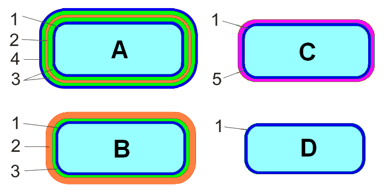 Prokaryotic cell envelope. A: Gram negative bacteria, B: Gram positive bacteria, C: Archaea, D: Mycoplasma. 1-cytoplasmic membrane, 2-murein cell wall, 3-periplasmic space. 4-outer membrane, 5-archaeal cell wall.